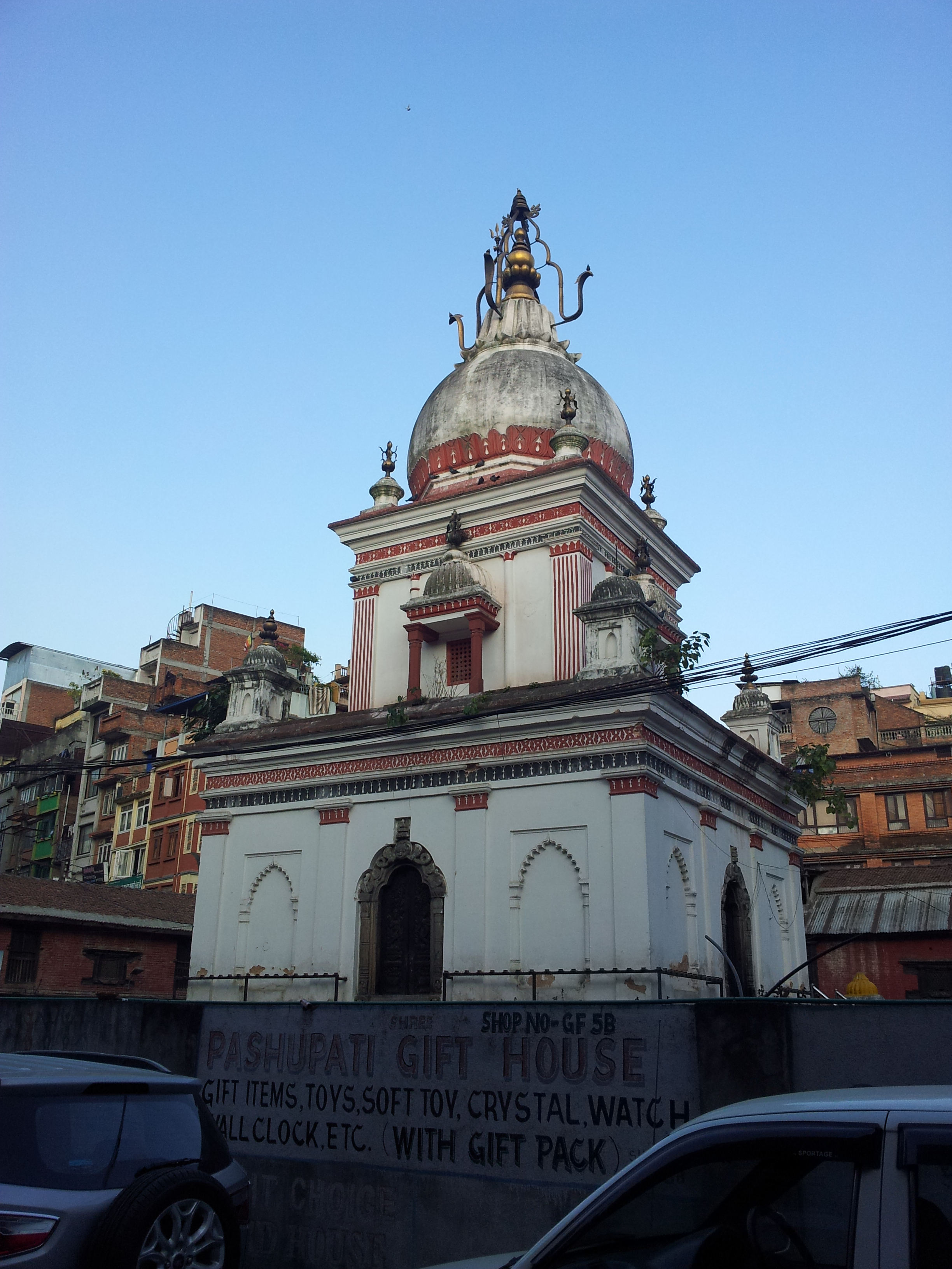 A view of Rana-Mukteshowr Temple in Kathmandu